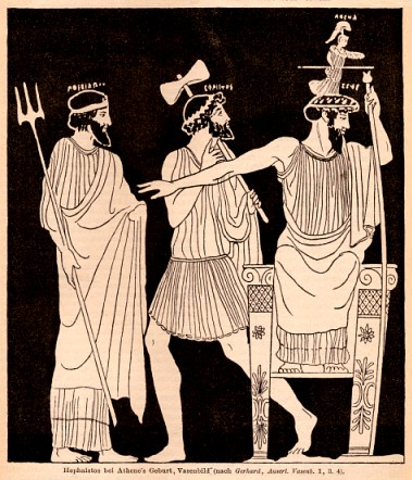 Birth of Athena from the head of Zeus, from a vase painting